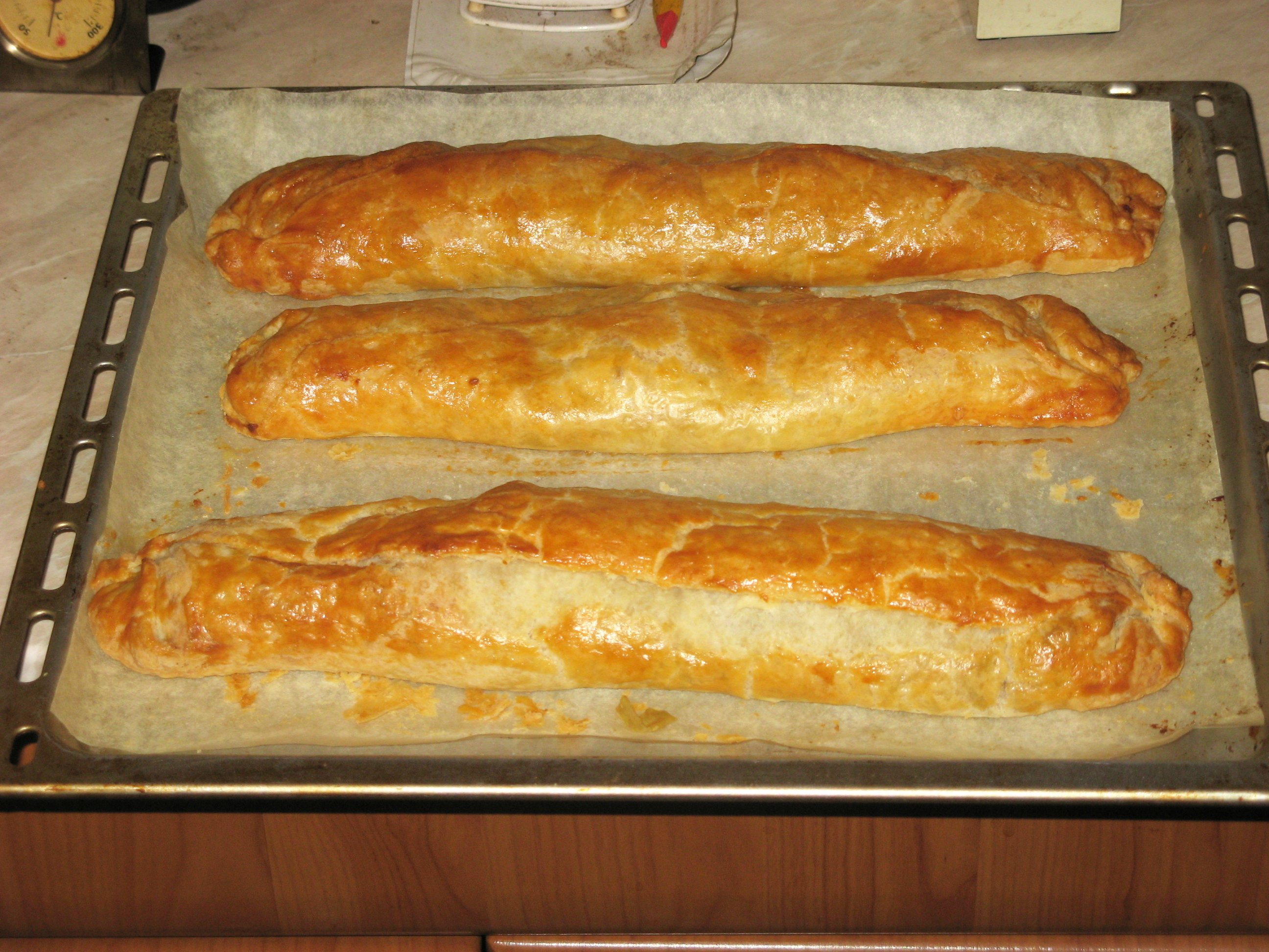 Apple strudel